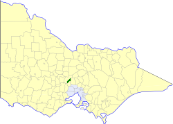 Location of the Shire of Newham & Woodend within Victoria.